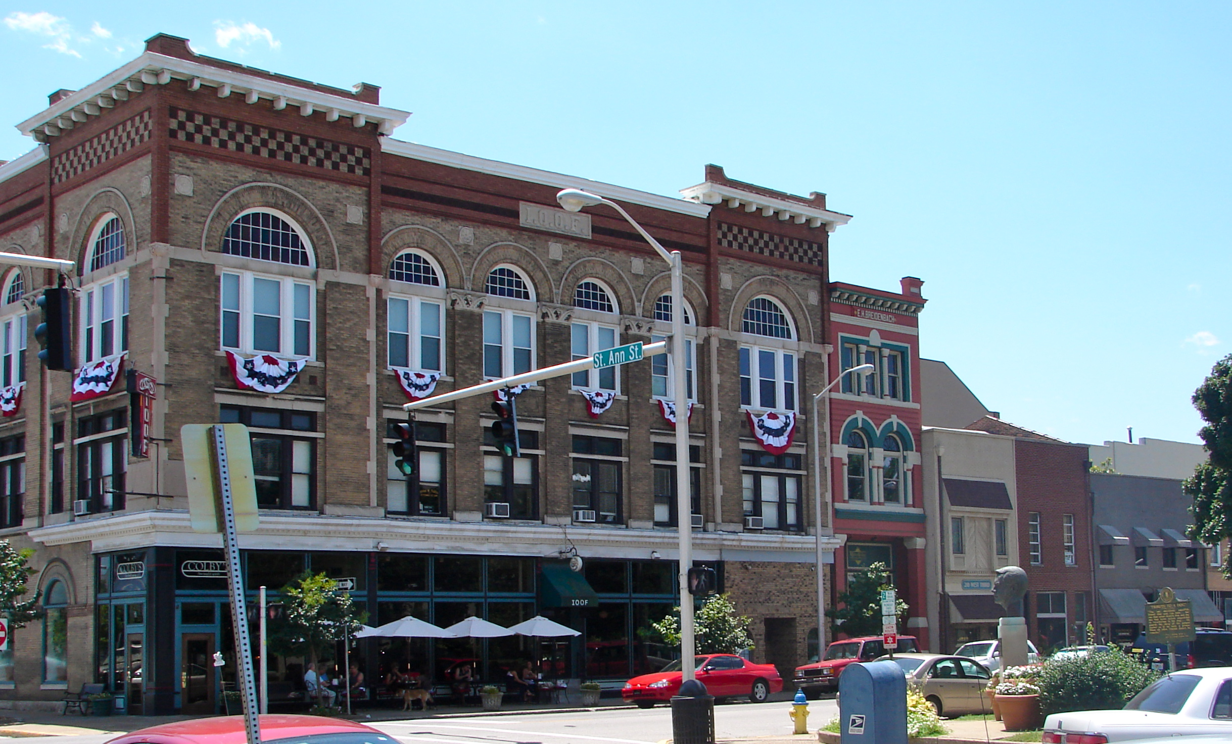 Corner of West 3rd and St. Ann Streets in Owensboro, Kentucky. In a NRHP Historic District